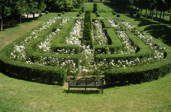 The Maze